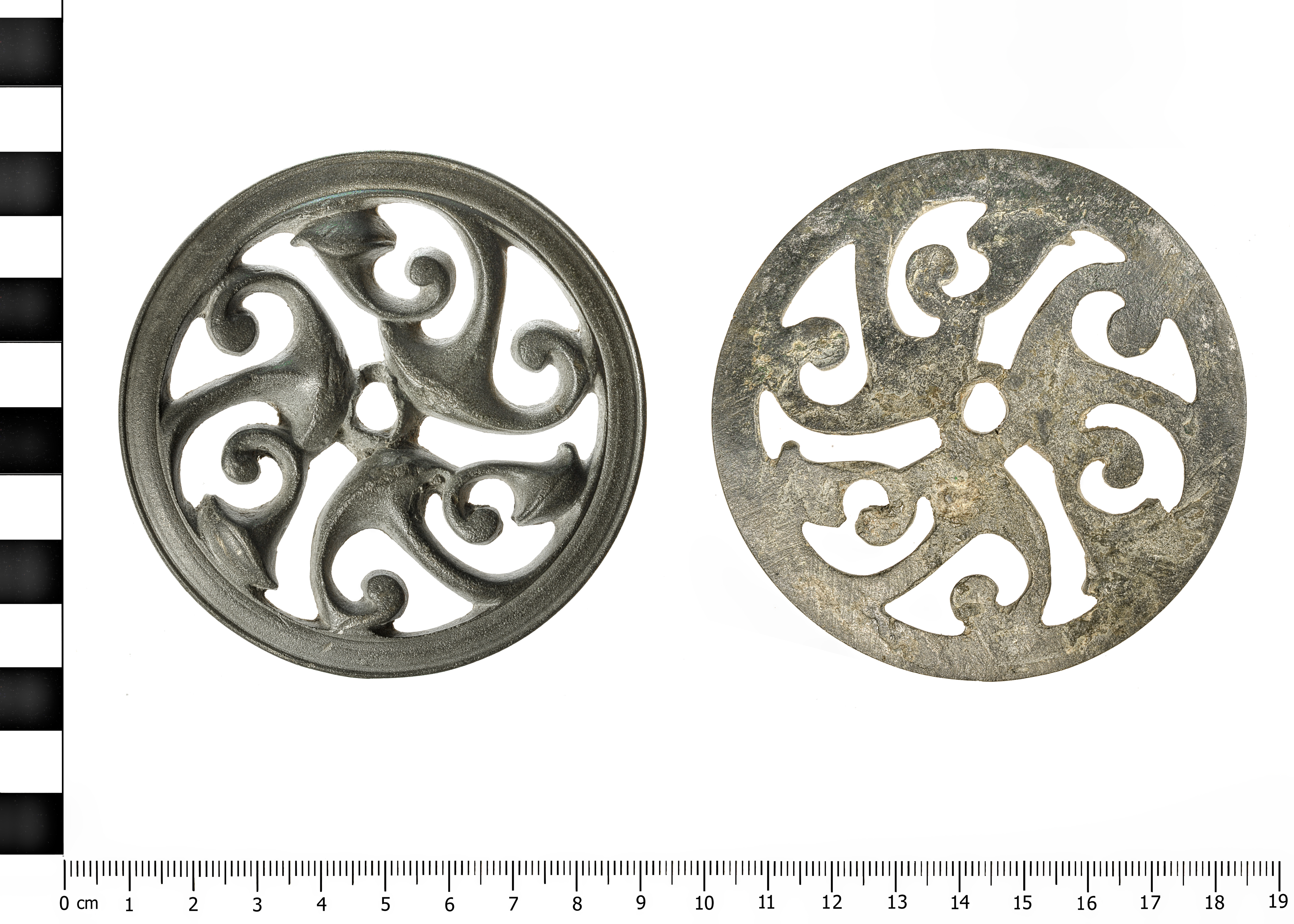 A complete cast copper alloy Roman military phalera (horse harness) mount dating to the third century AD. The phalera is circular in plan, with some post-depositional damage and has an openwork design, depicting a trio of double Celtic 'trumpet' or lotus blossom-like motifs within an outer border which has a pair of central, lightly grooved circumferential lines within an outer lip. The fixing hole is at the centre of the piece and has been worn to an ovoid, from perhaps an original circular hole. The reverse of the phalera is flat, plain and undecorated. The phalera is slightly bent but is otherwise in excellent condition, with a mid-green patina on a slightly coarse surface. A very similar phalera mount is illustrated in Bishop & Coulston (2006:191 fig.124/3), which also displays the trumpet / lotus blossom-like motifs within a circular frame. The illustrated example was found at the Roman fort at Zugmantel, Germany (ibid. 190) and is dated to the third century AD, when phalera mounts of this form became more common. A similar mount from Dormagen, Germany can be seen in 'Celts, Art and Identity' [ed Farley, J and Hunter, F. British Museum 2015 p 160-161]. An example from Buckinghamshire that exhibit the same mofis is recorded on this database (BUC-384F77).